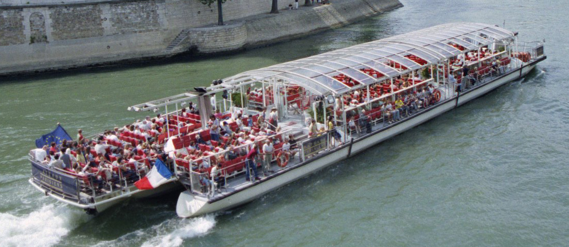 Cropped version of Image:Paris-bateau-parisien.jpg. Tour boat, Seine, Paris